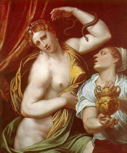 Death of Cleopatra